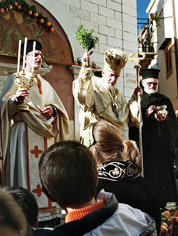 Piana degli Albanesi - Benediction by bishop Sotir Ferrara during the ceremony of Epiphany, 2007